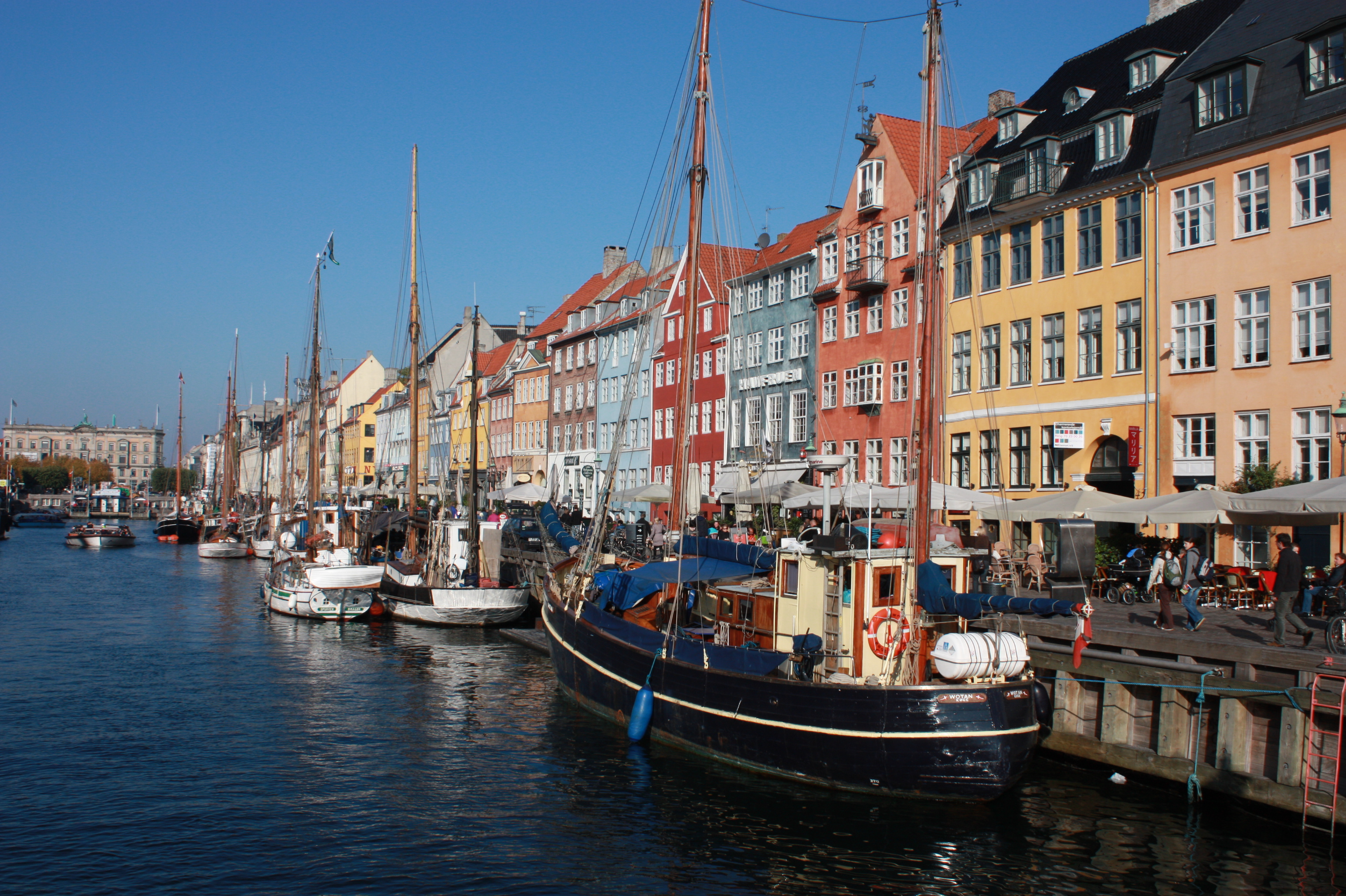 Kopenhagen Nyhavn